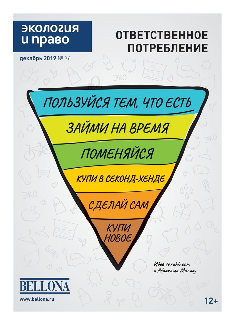 Обложка номера журнала "Экология и право", посвящённого ответственному потреблению.